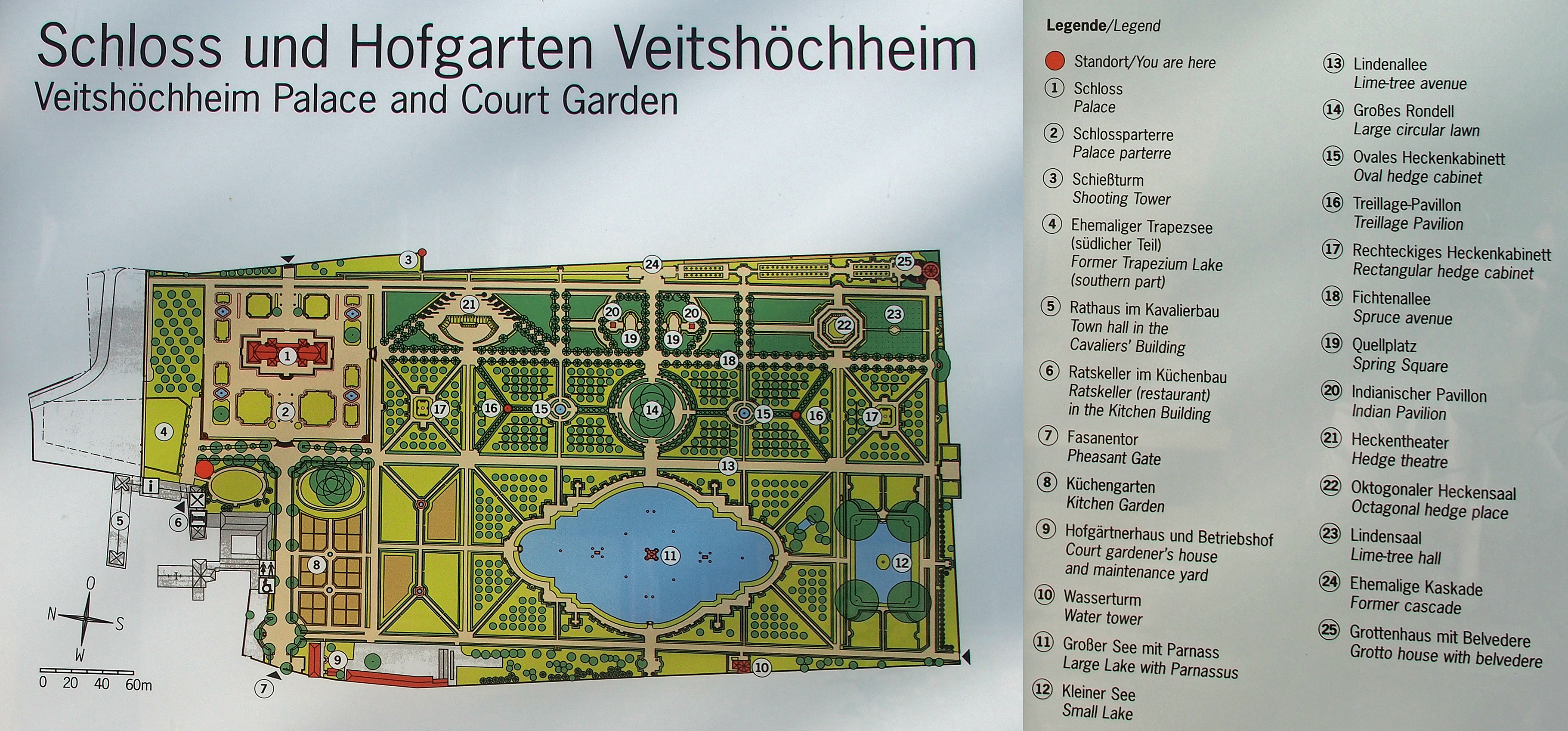 Palace and Court Garden Veitshöchheim